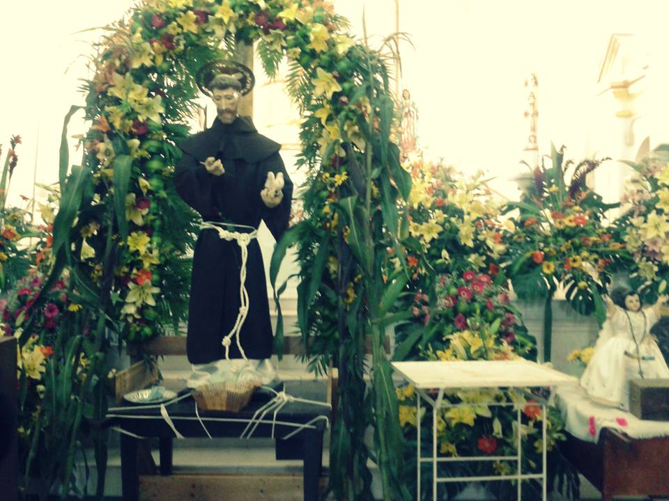 San Francisco de Asís Santo Patrono